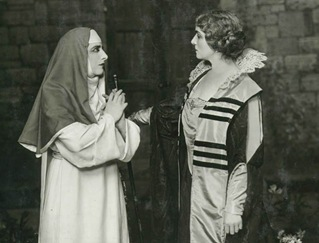 Geraldine Farrar as Suor Angelica and Flora Perini as the Zia Principessa in the world premiere of Puccini's "Suor Angelica", Metropolitan Opera, New York City, 1918.